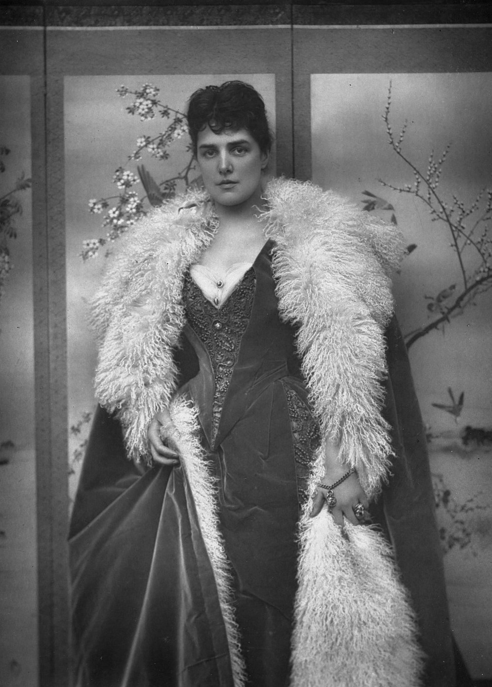 Portrait of Lady Randolph Churchill (1854-1921), Woodburytype, 9.7 x 7.1 in (247 mm x 180 mm)